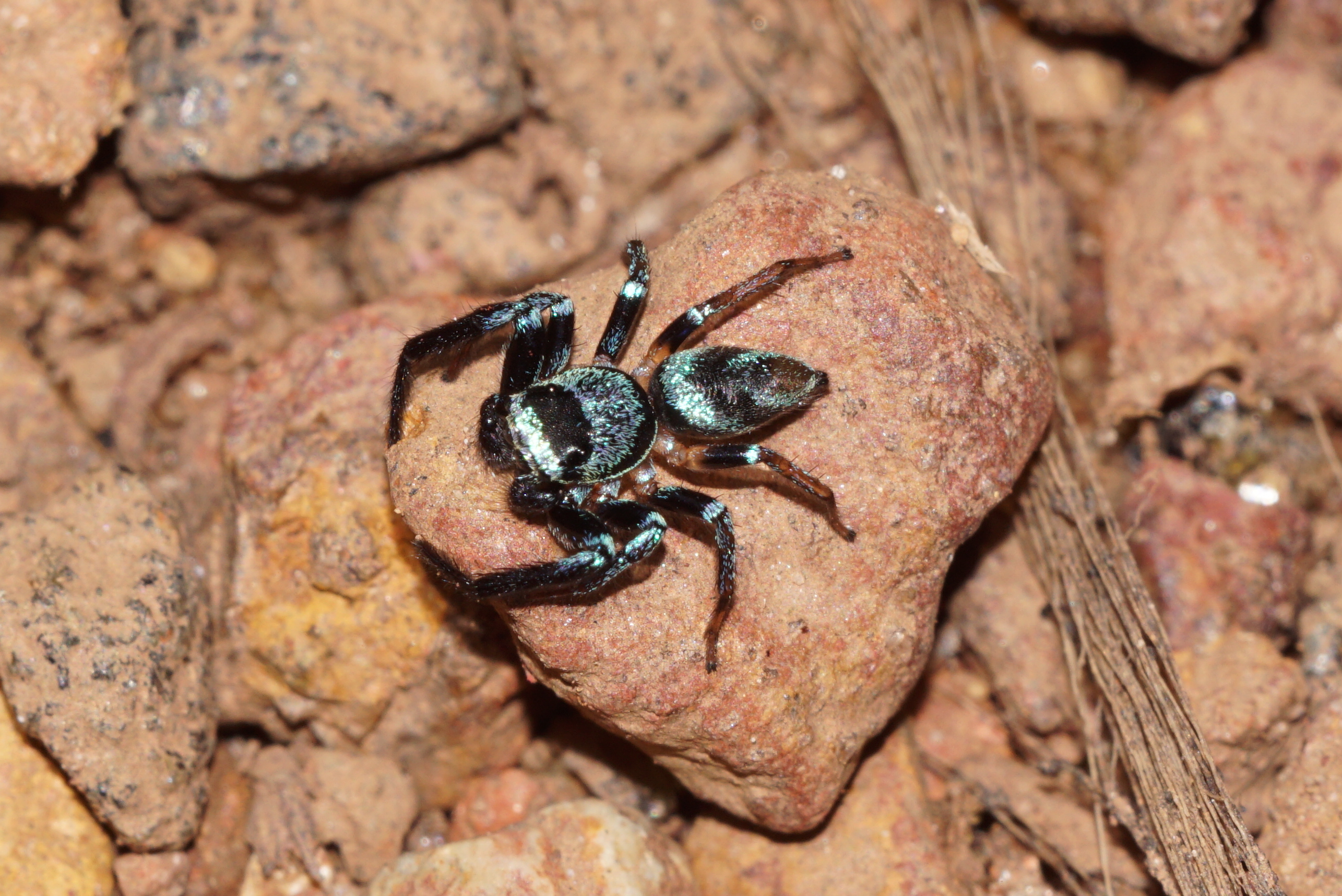 Thiania bhamoensis [Fighting Spider]